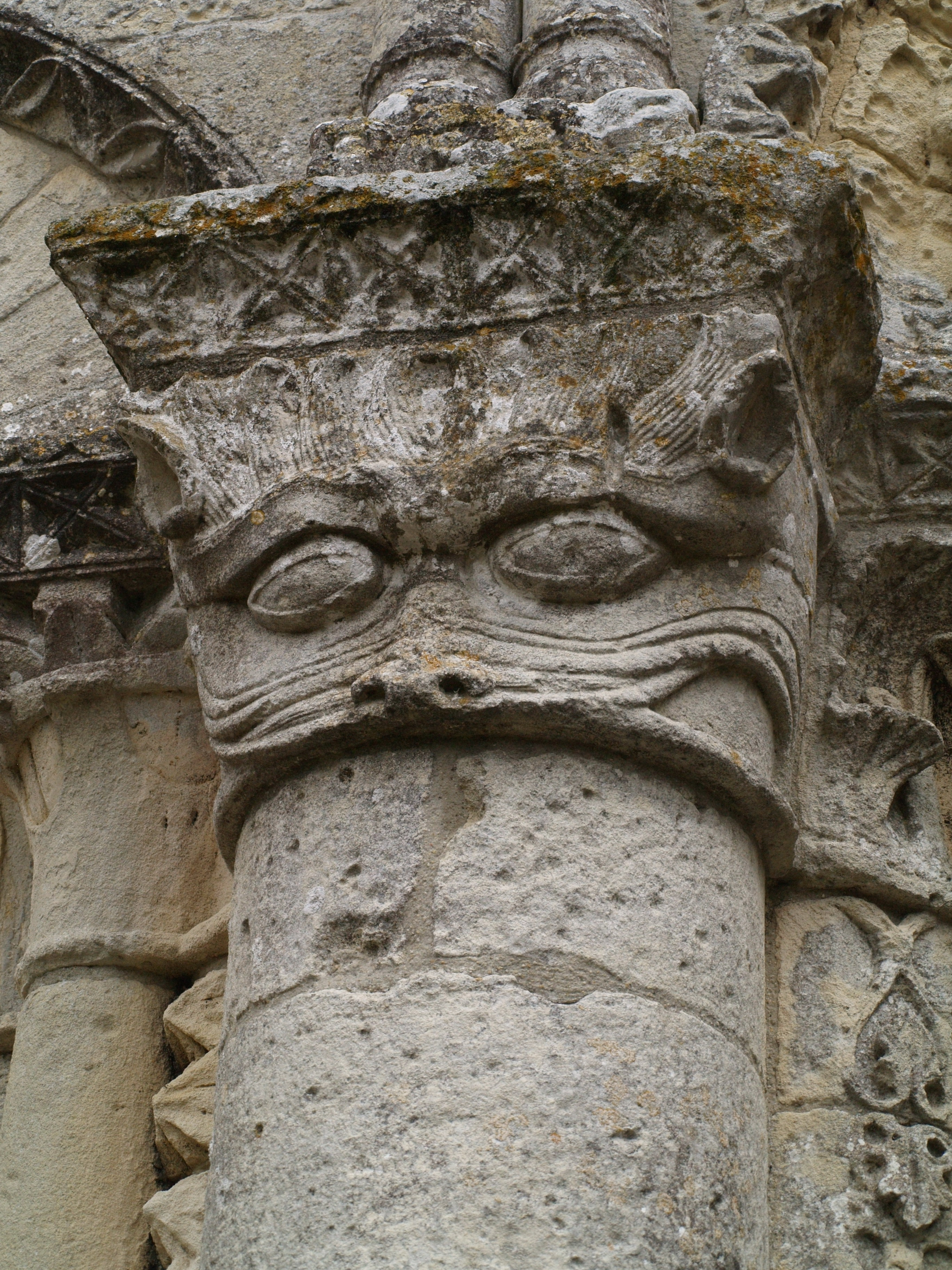 Echillais (Charente-Maritime, France) - Romanesque church - "Grand Goule"